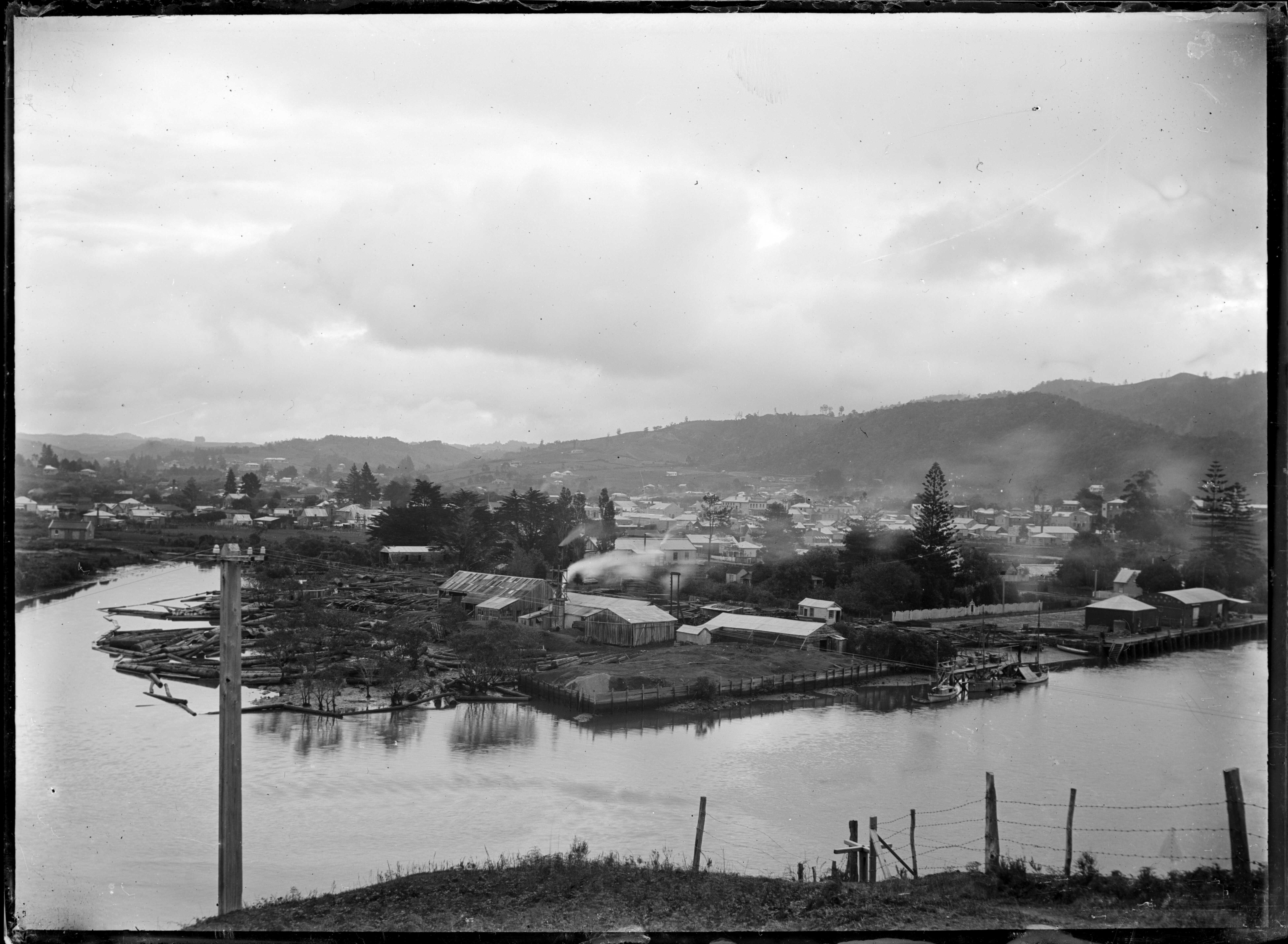 View of Whangarei from the foot of Parahaki, with the Hatea River in the foreground, and a timber mill across the river in the centre. Taken by Albert Percy Godber in 1911.